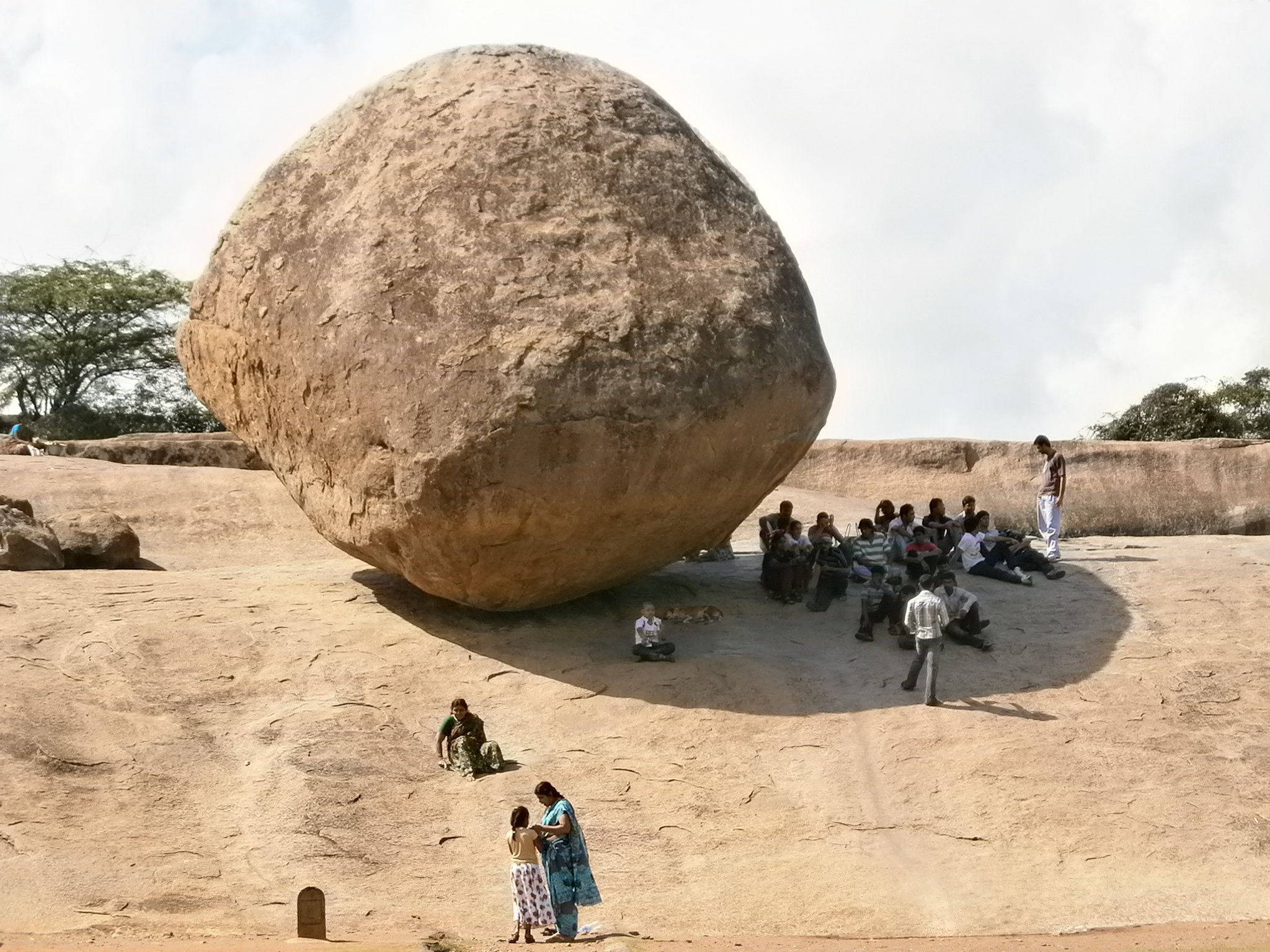 Krishnas-Butter-Ball-Mahabalipuram-Chennai-5